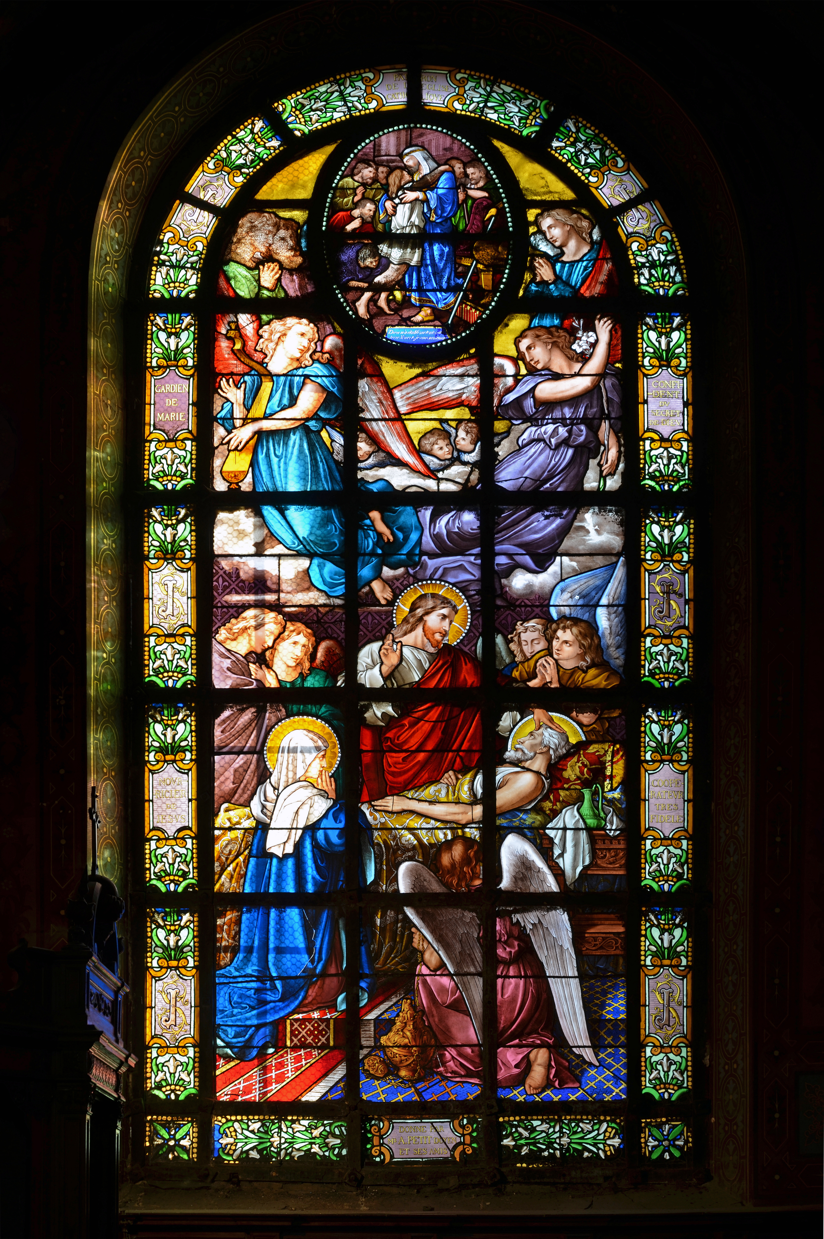 Stained glass window depicting The death of Joseph, in La Rochelle Cathedral - Charente-Maritime, France. .